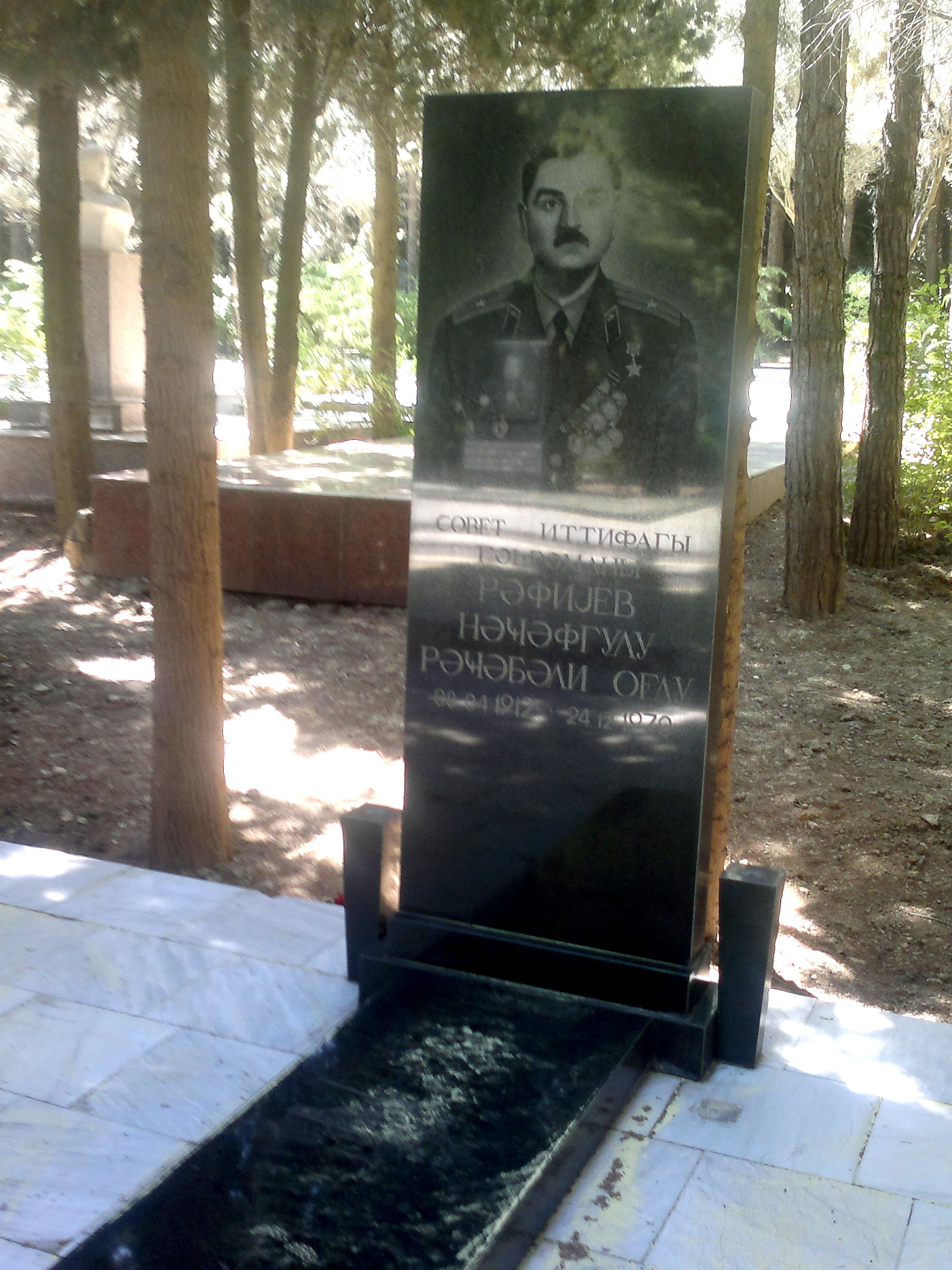 Burial of Najafgulu Rafiyev at Alley of Honor (Azerbaijan)